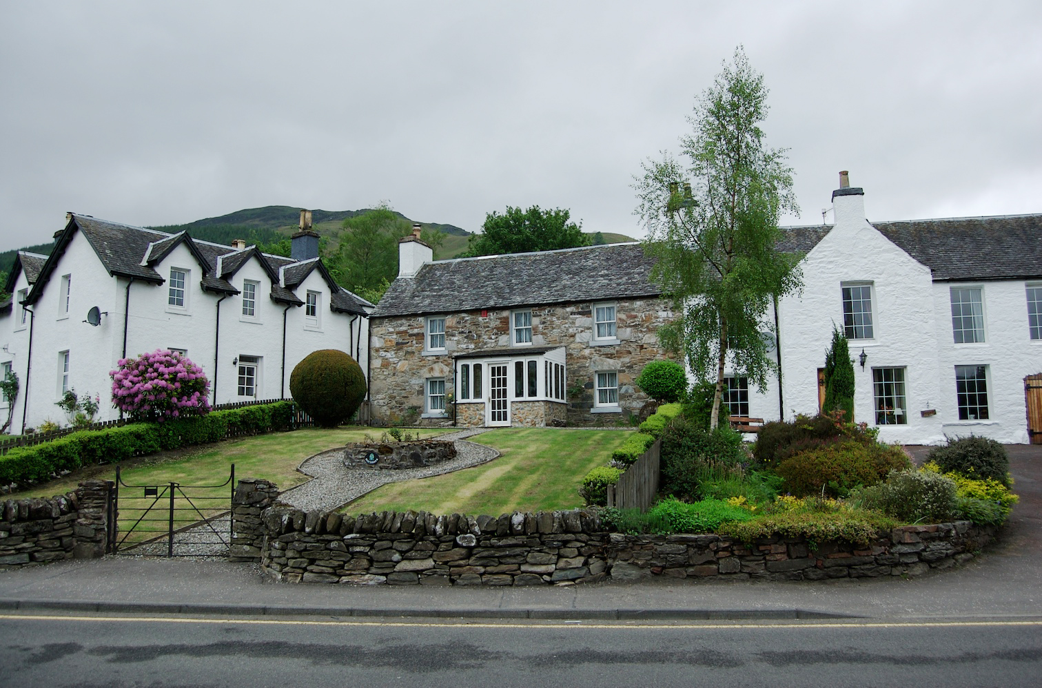 Killin, Perthshire, Scotland